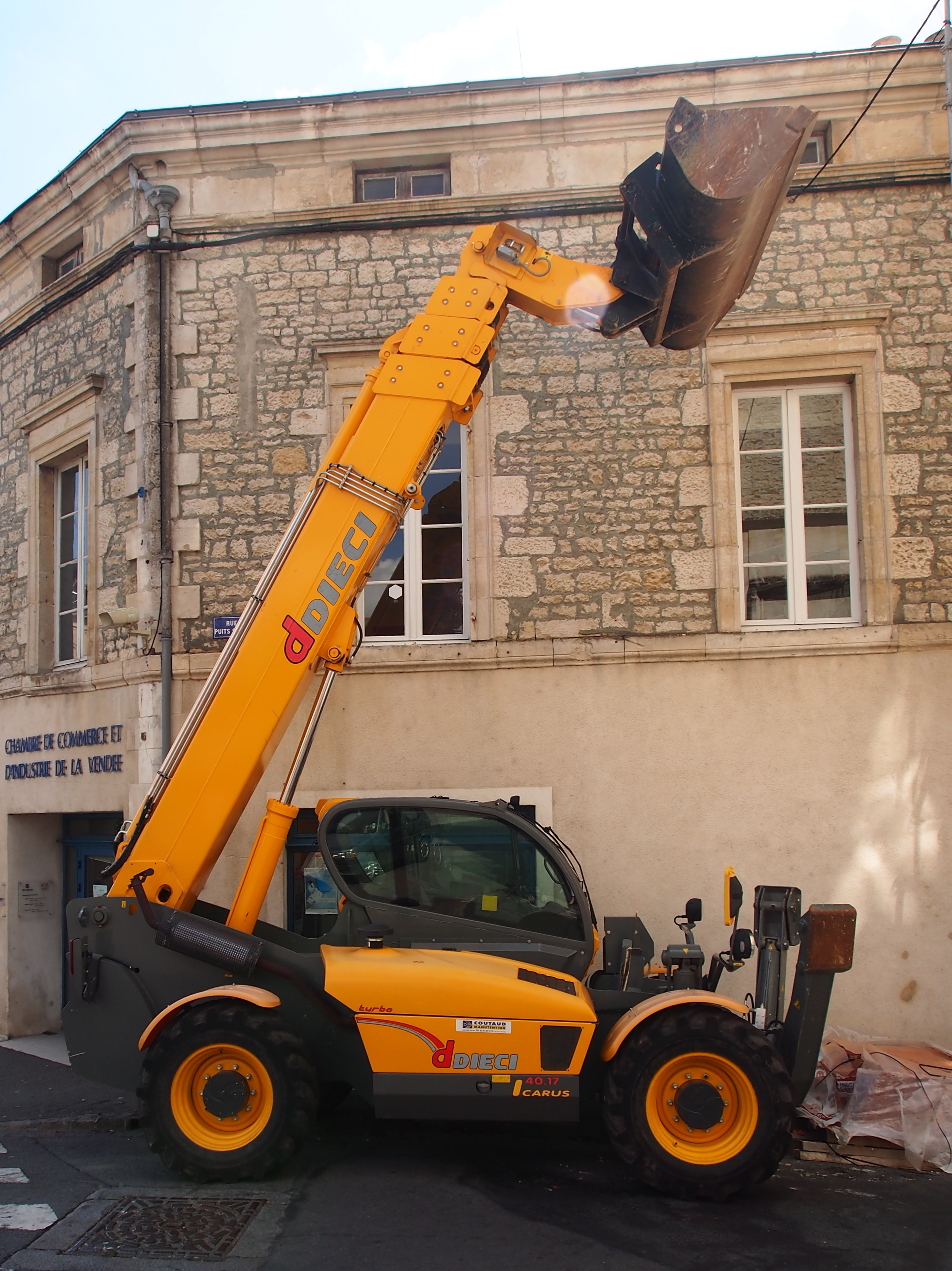 Photographed in France.